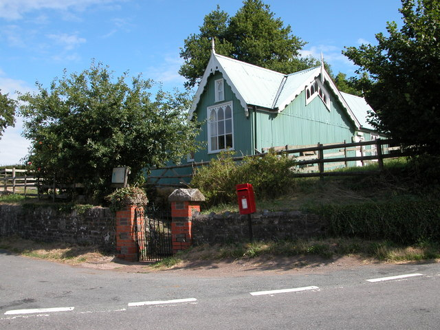 Village Hall, Llanddewi Skirrid. Village or parish hall on the side of the B4521 at Llanddewi Skirrid. The walls are corrugated tin.